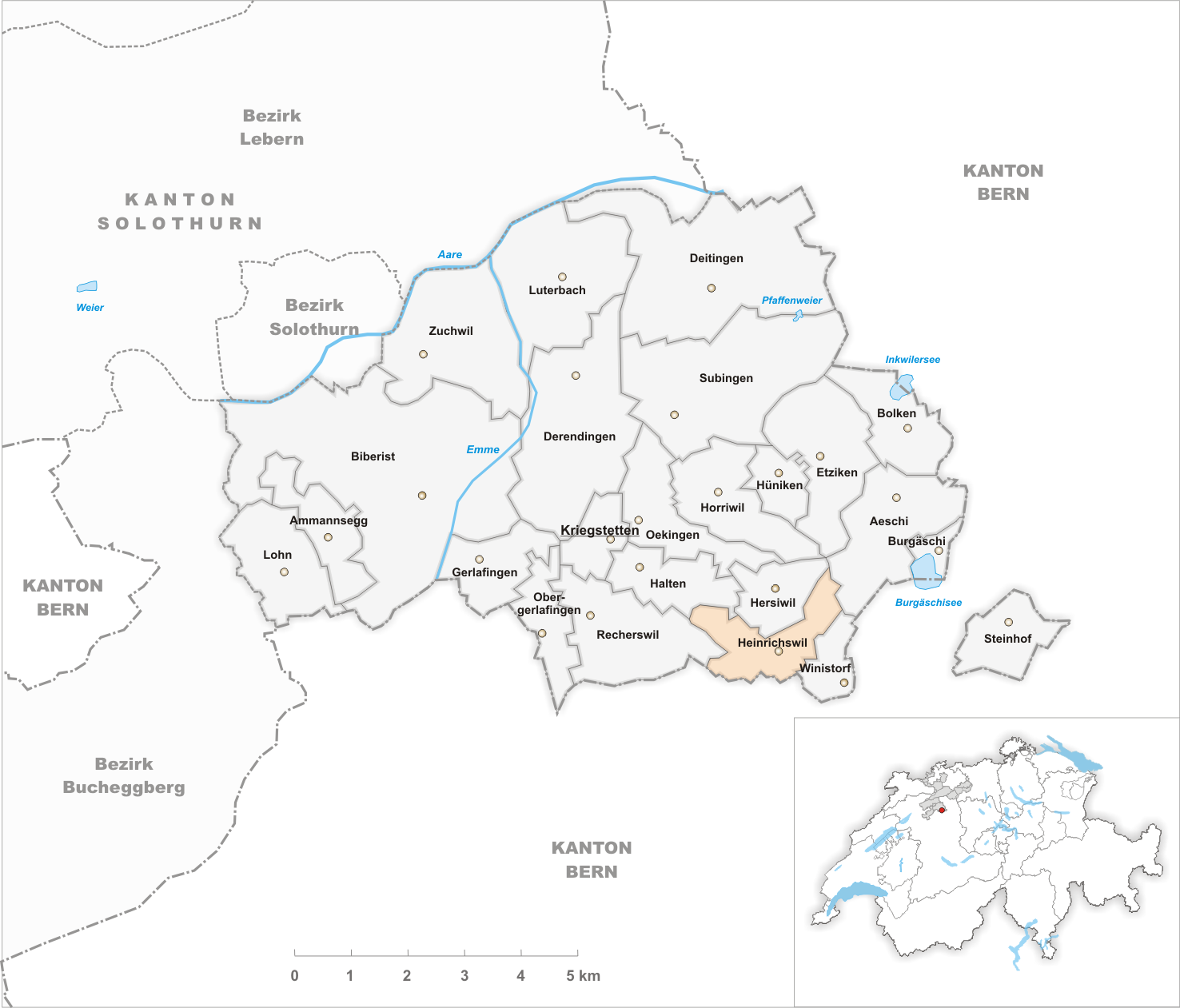 Municipality Heinrichswil Artist: Tschubby